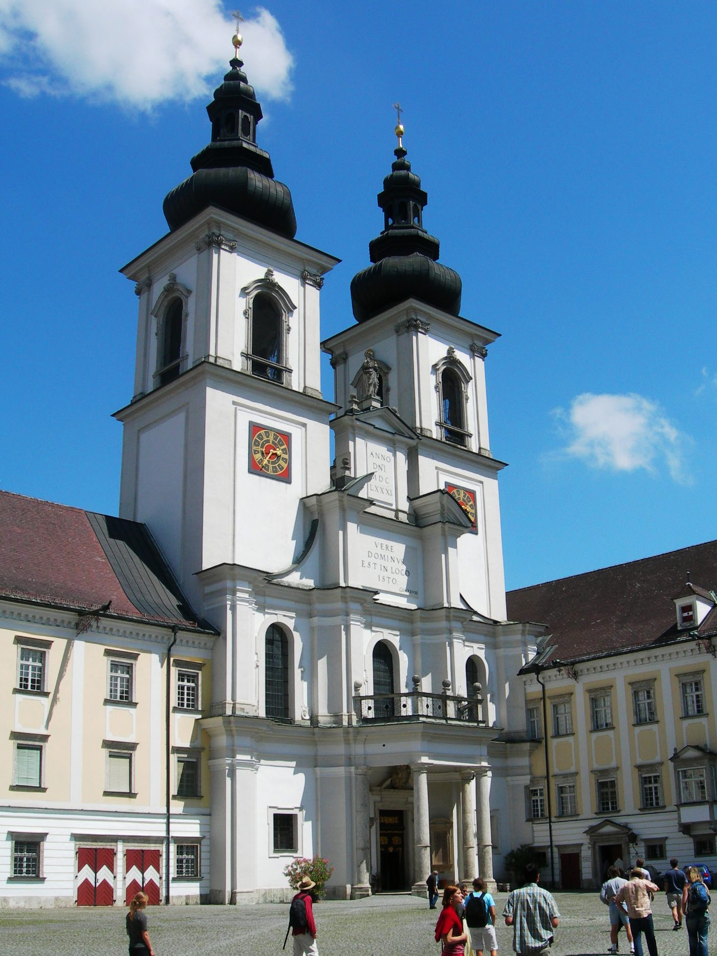 Stift Kremsmünster (Austria), western facade (G. B. Barberini, 1681)